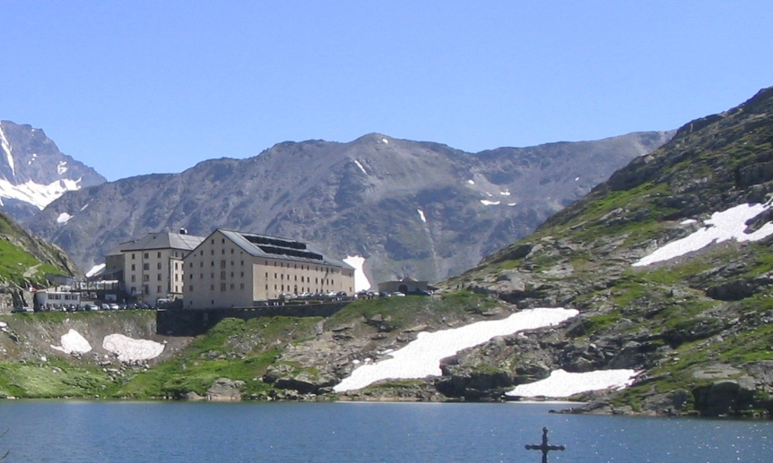 Névés near the Great St Bernard Pass in the Alps